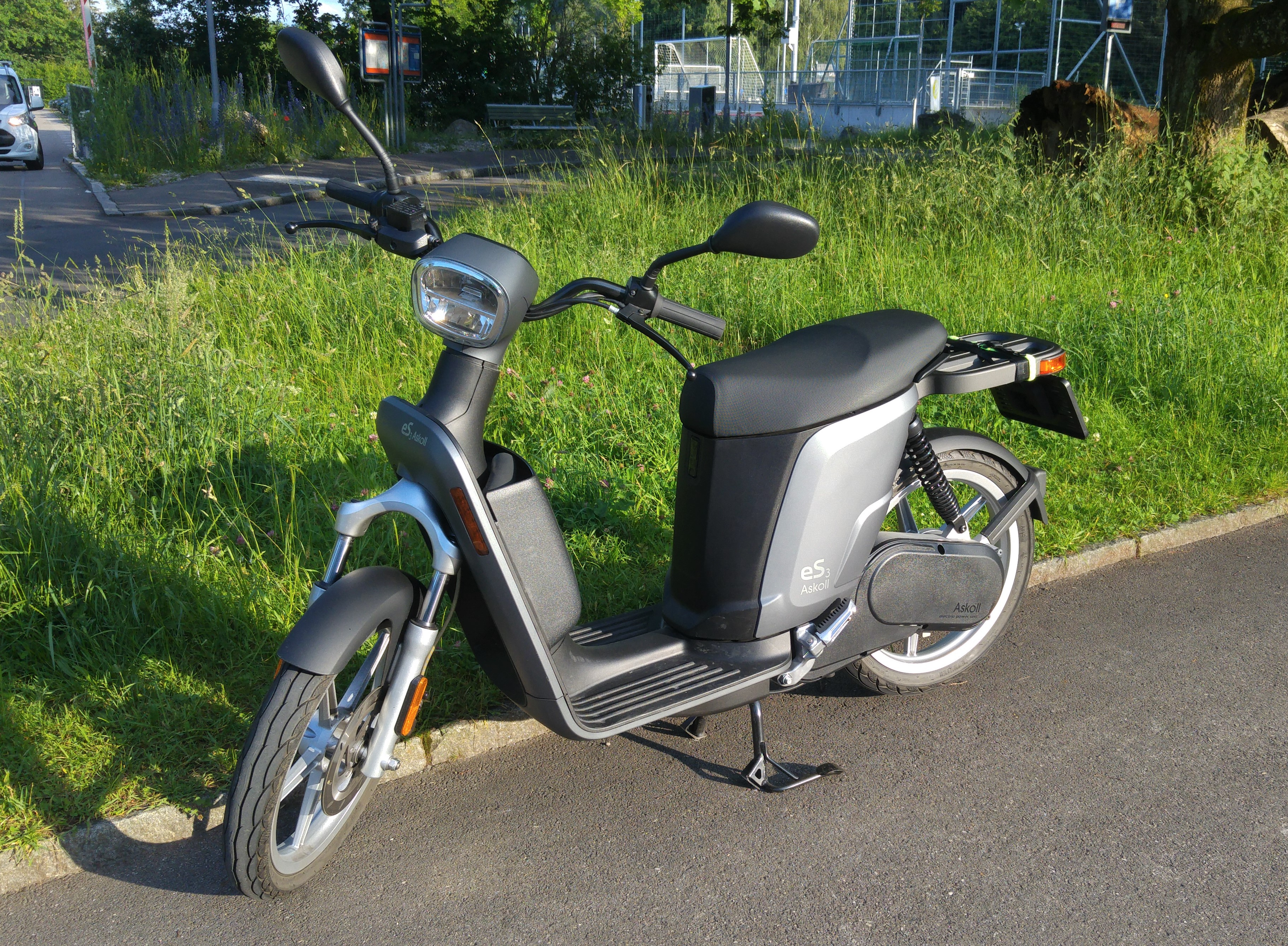 2018 Askoll eS3 electric scooter